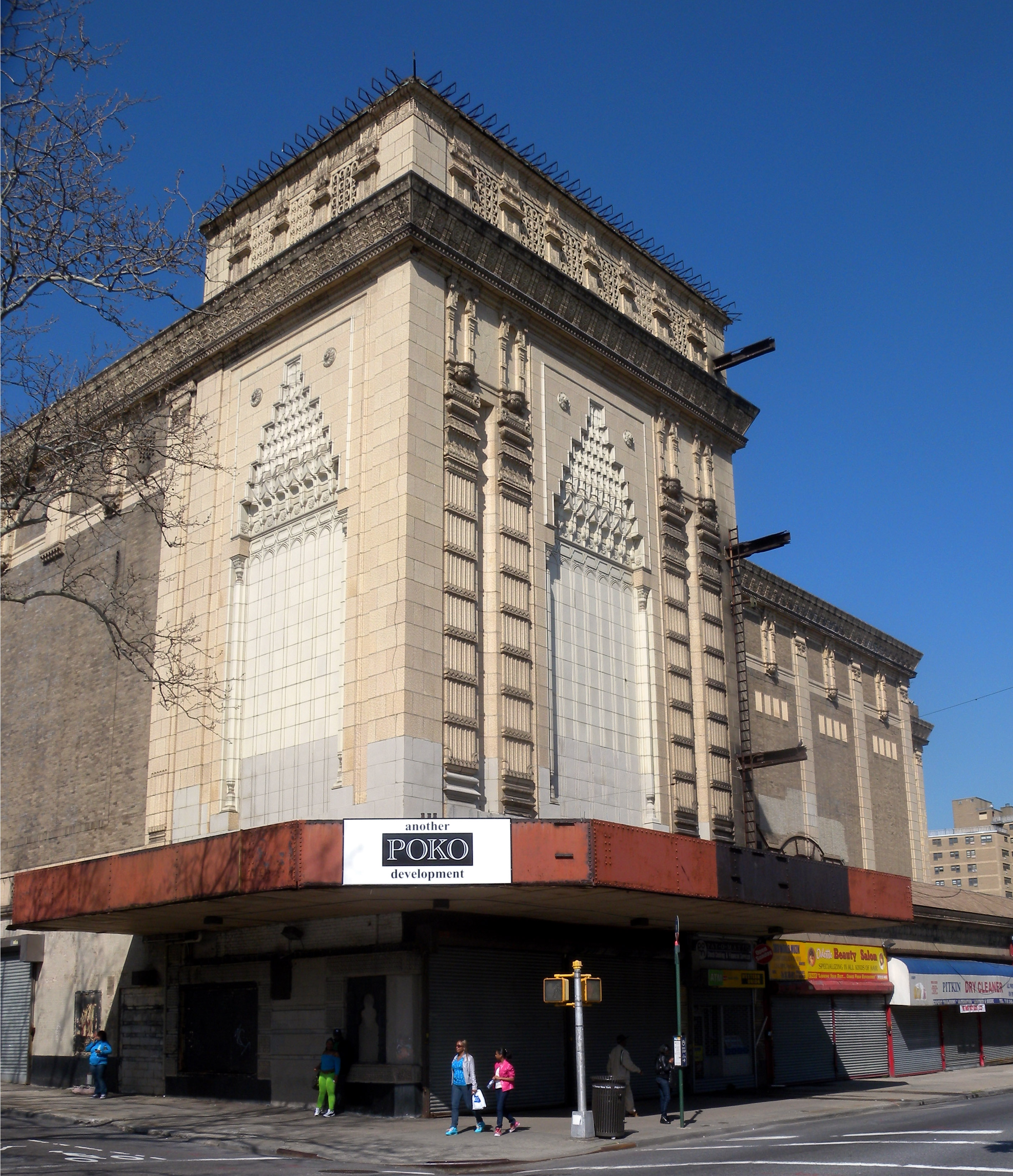 Looking northeast across Pitkin Avenue at Loew's Pitkin Theatre on a sunny afternoon.